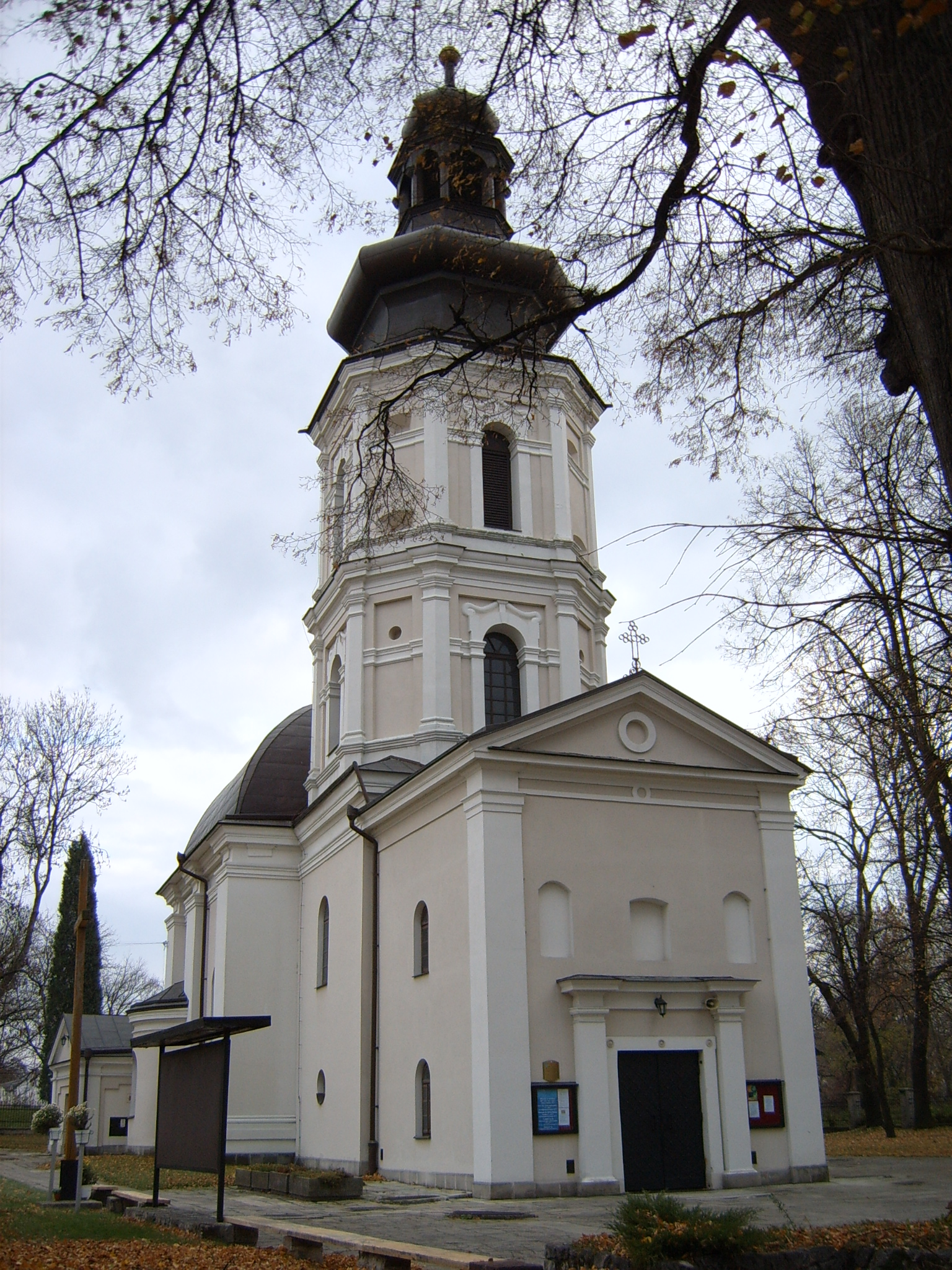 Saint Nicholas Church in Zamość